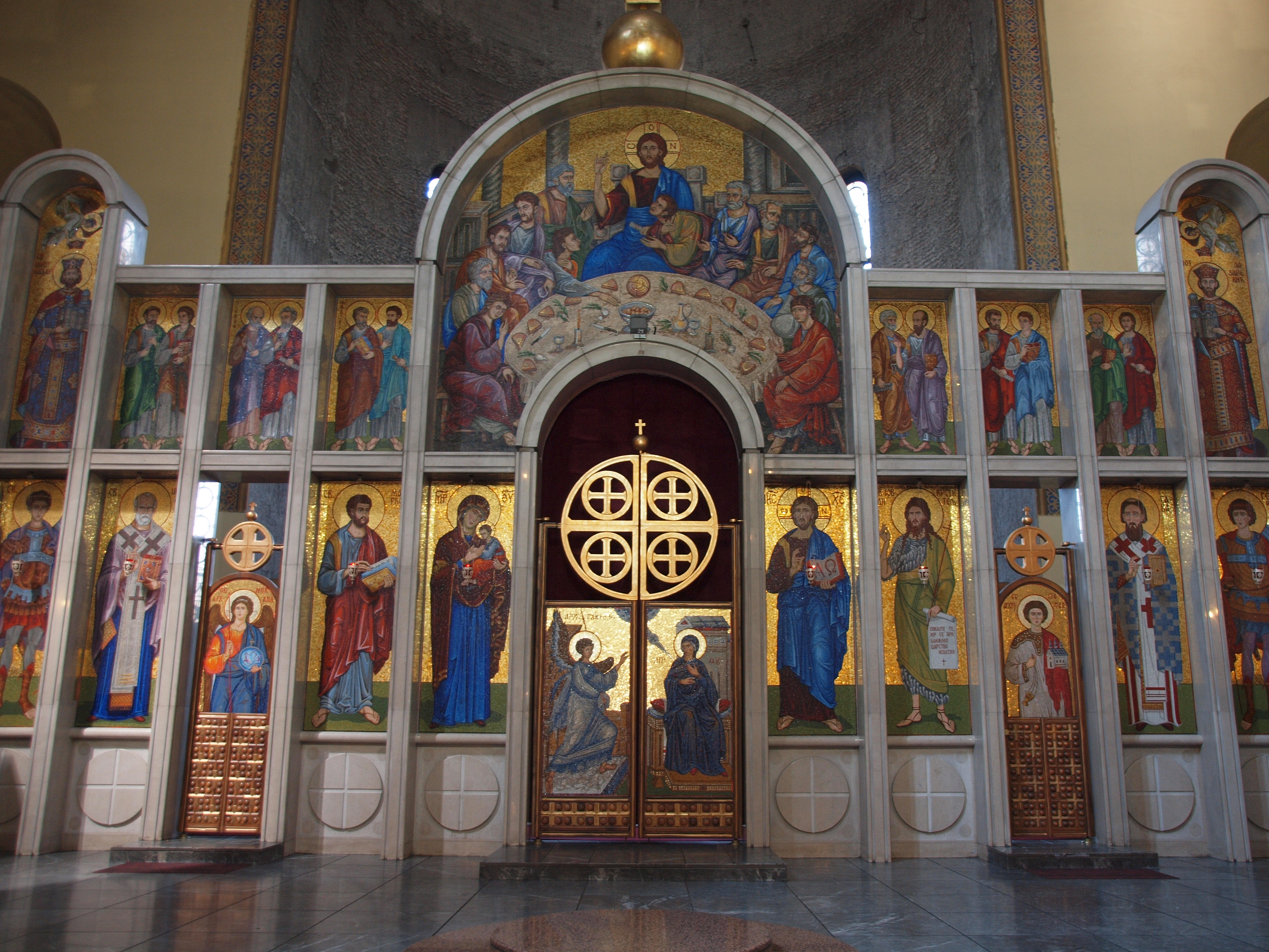 Ikonostasis Sv Marko Belgrad